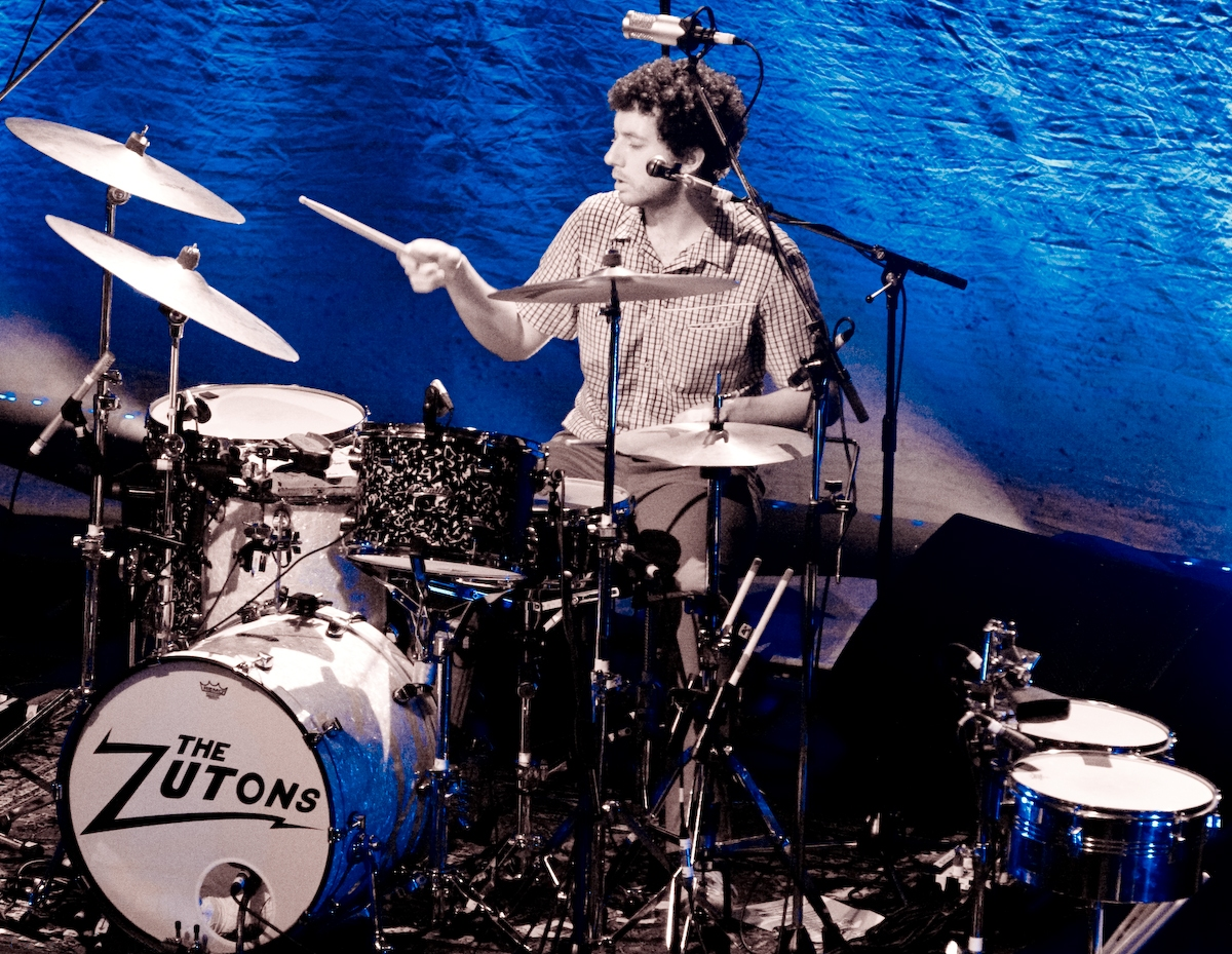 A few extra shots of The Zutons taken from The Balcony